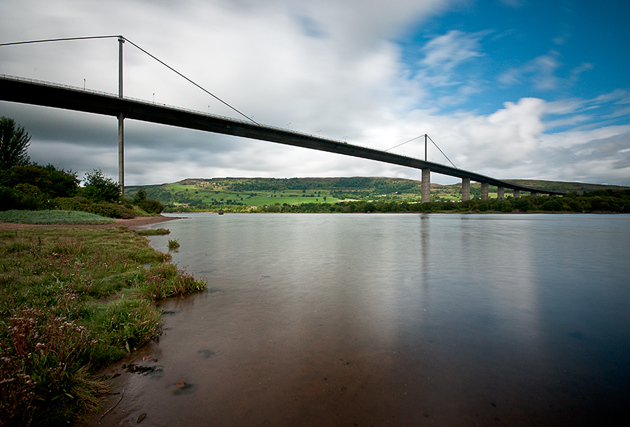 The Erskine Bridge is a cable-stayed box girder bridge spanning the River Clyde in west central Scotland, connecting West Dunbartonshire with Renfrewshire Original description:The bridge taken from where the car ferry once departed. f/16 15 seconds. B&W 10 stop filter. 10mm focal length on the sigma 10-20 wide angled lens. This was the first image I took. Hung about for over an hour and the light didn't improve so another visit is due?